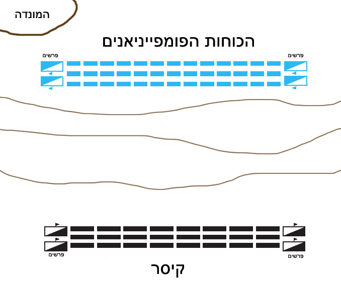 A map I created of Battle of Munda.